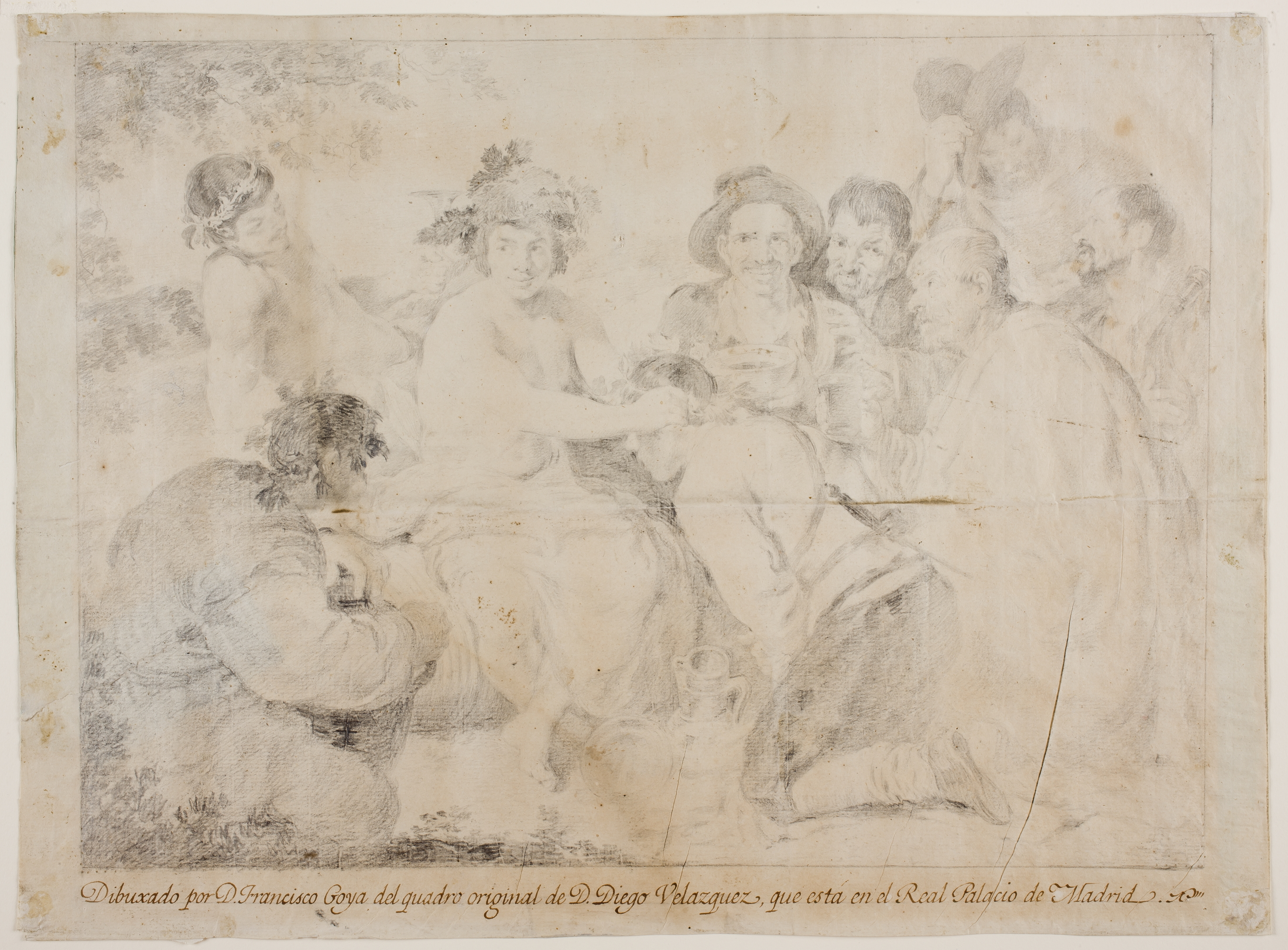 El triunfo de Baco o Los borrachos, D04330